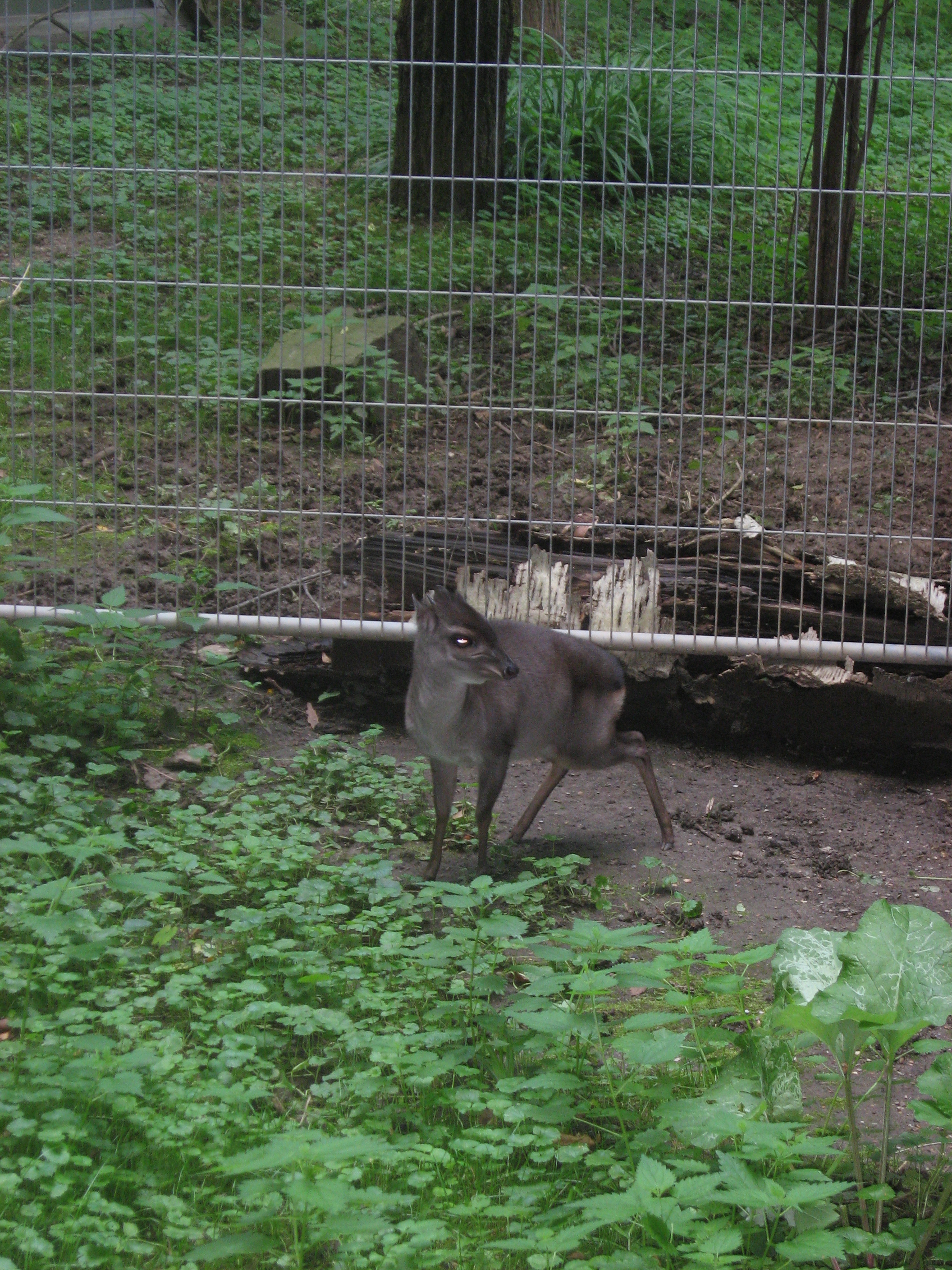 Cephalophus monticola/Philantomba monticola (blue duiker) in Zoo Krefeld